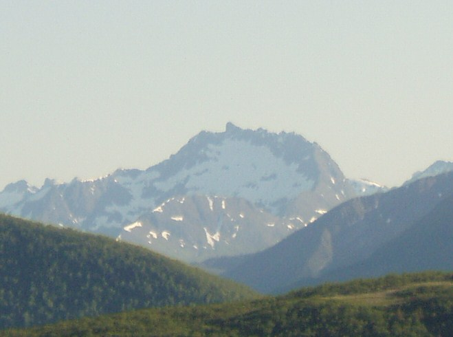 Reinspælen, 1,116 meters above sealevel, the highest mountain of the municipality of Kvæfjord, Troms, Norway.